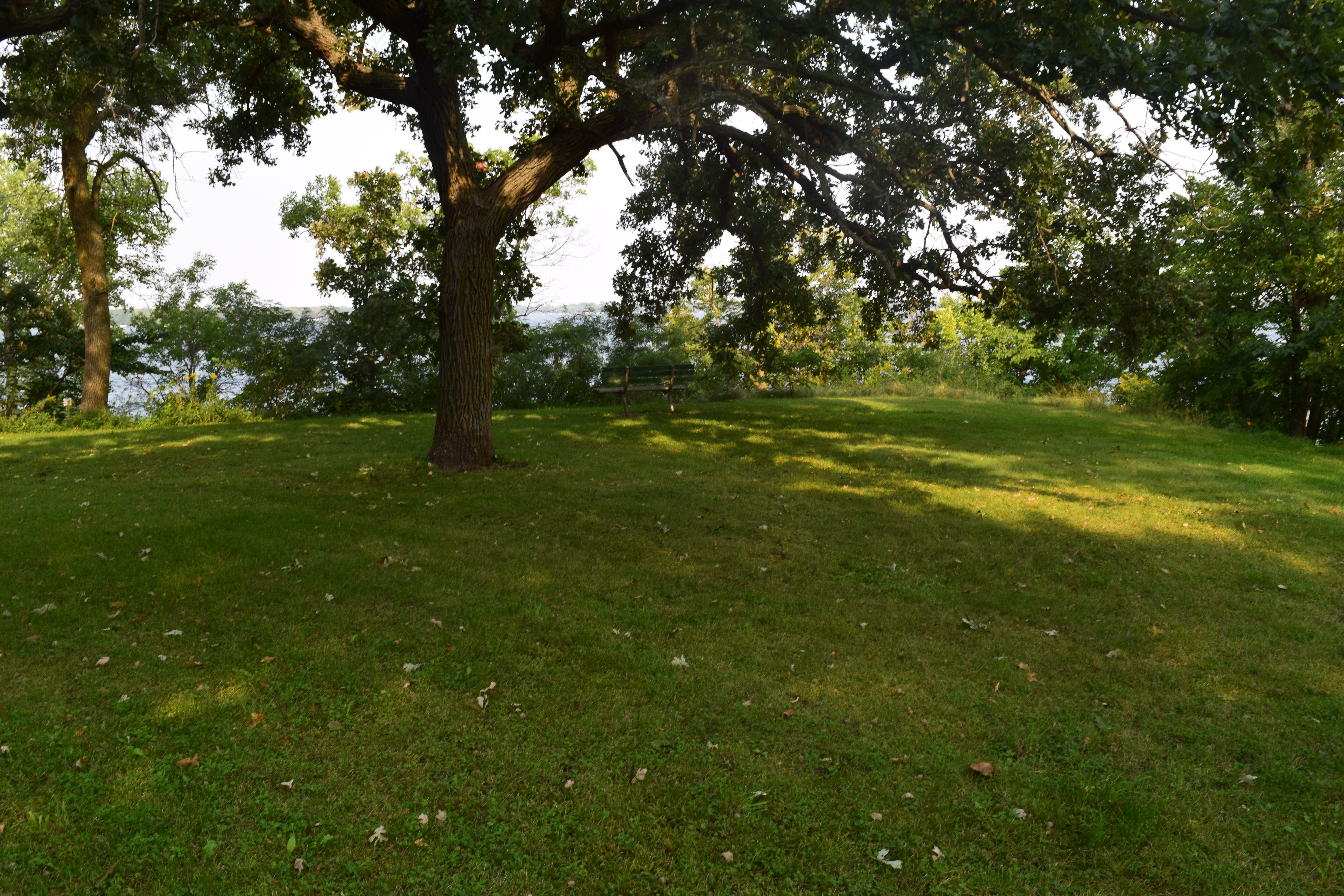 The overlook area at Pillsbury Point State Park in Arnolds Park, Iowa.